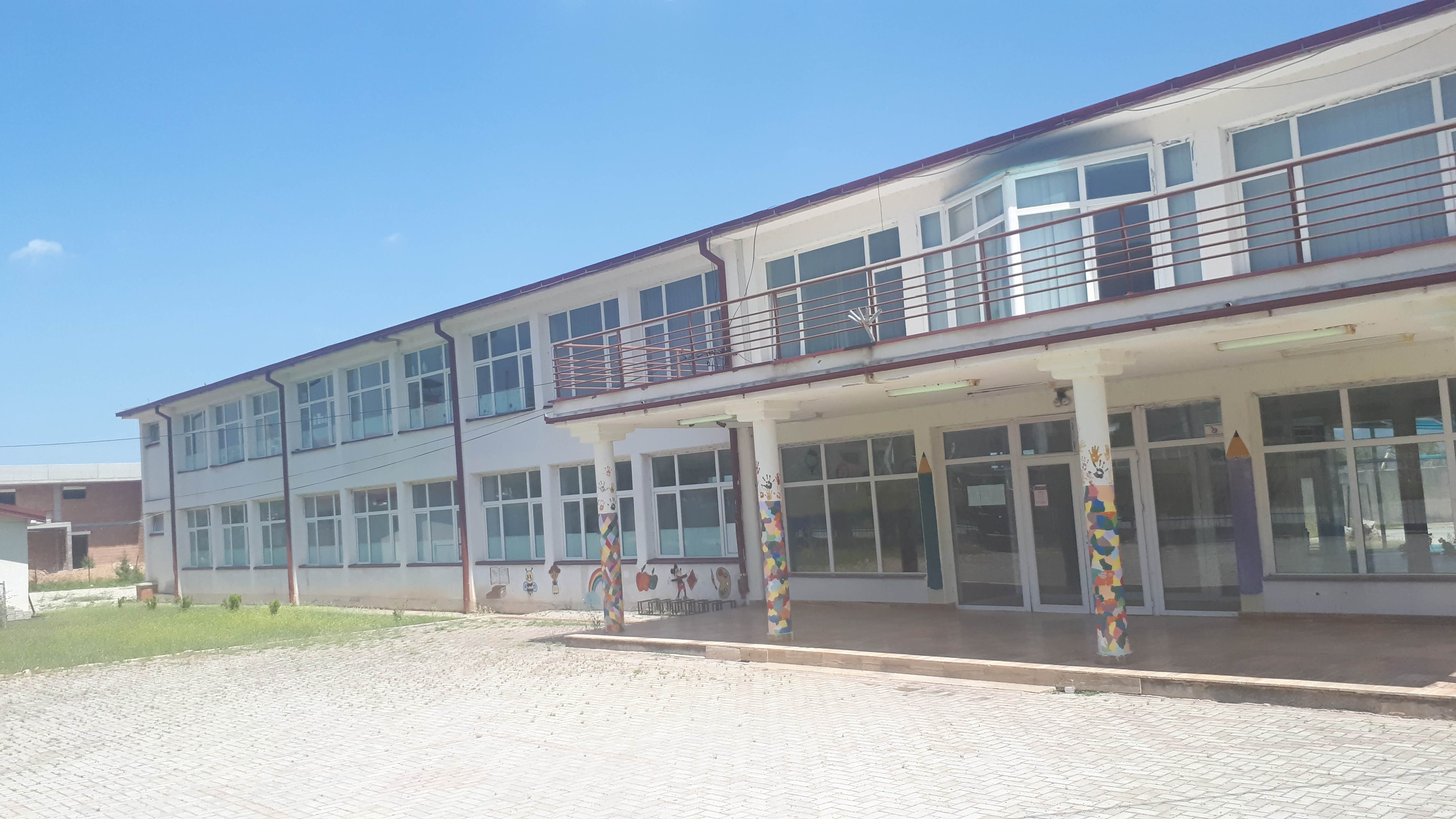 Primary school in the village Radolišta